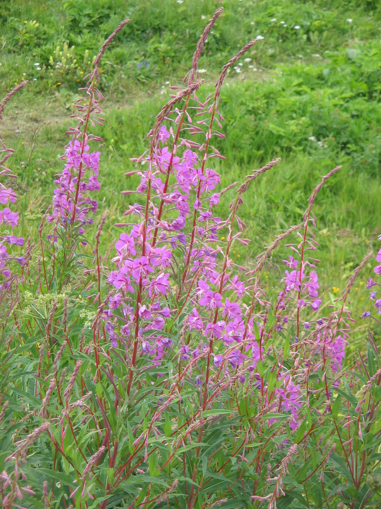 Chamerion angustifolium (fireweed)